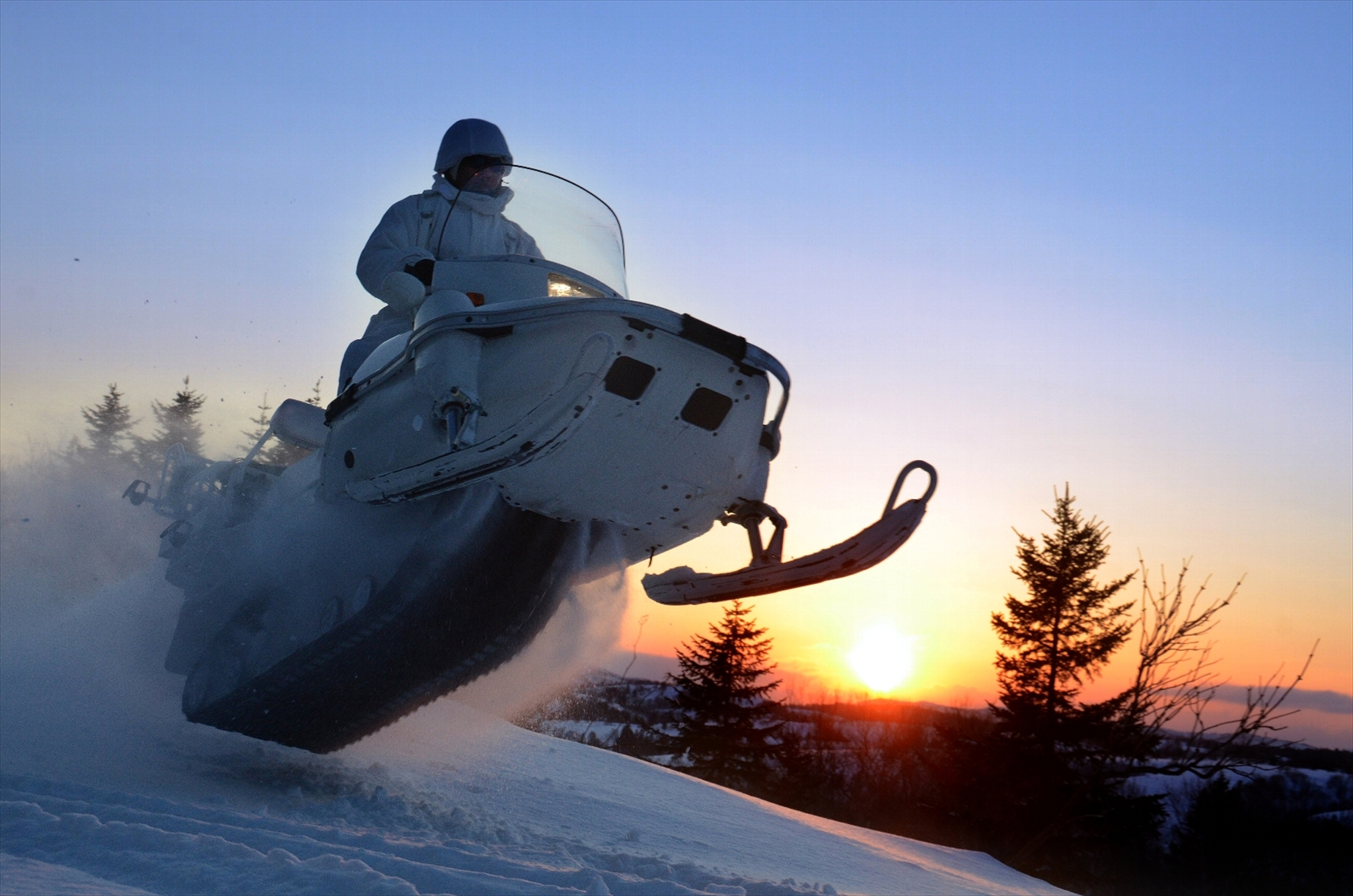 Title 軽雪上車 25.02.12 ２Ｒｃｎ・軽雪上車操縦合同訓練(2).jpg Album 装備 軽雪上車（操縦訓練・第２師団）